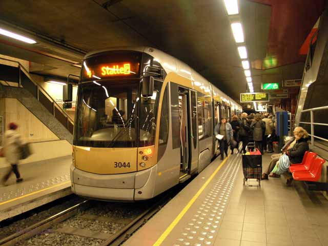 Subterranean tram stop at Brussels' South Station